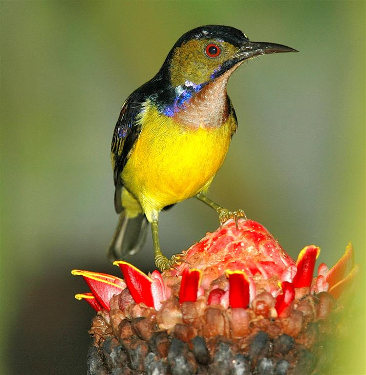 Plain-throated Sunbird (Anthreptes malacensis)